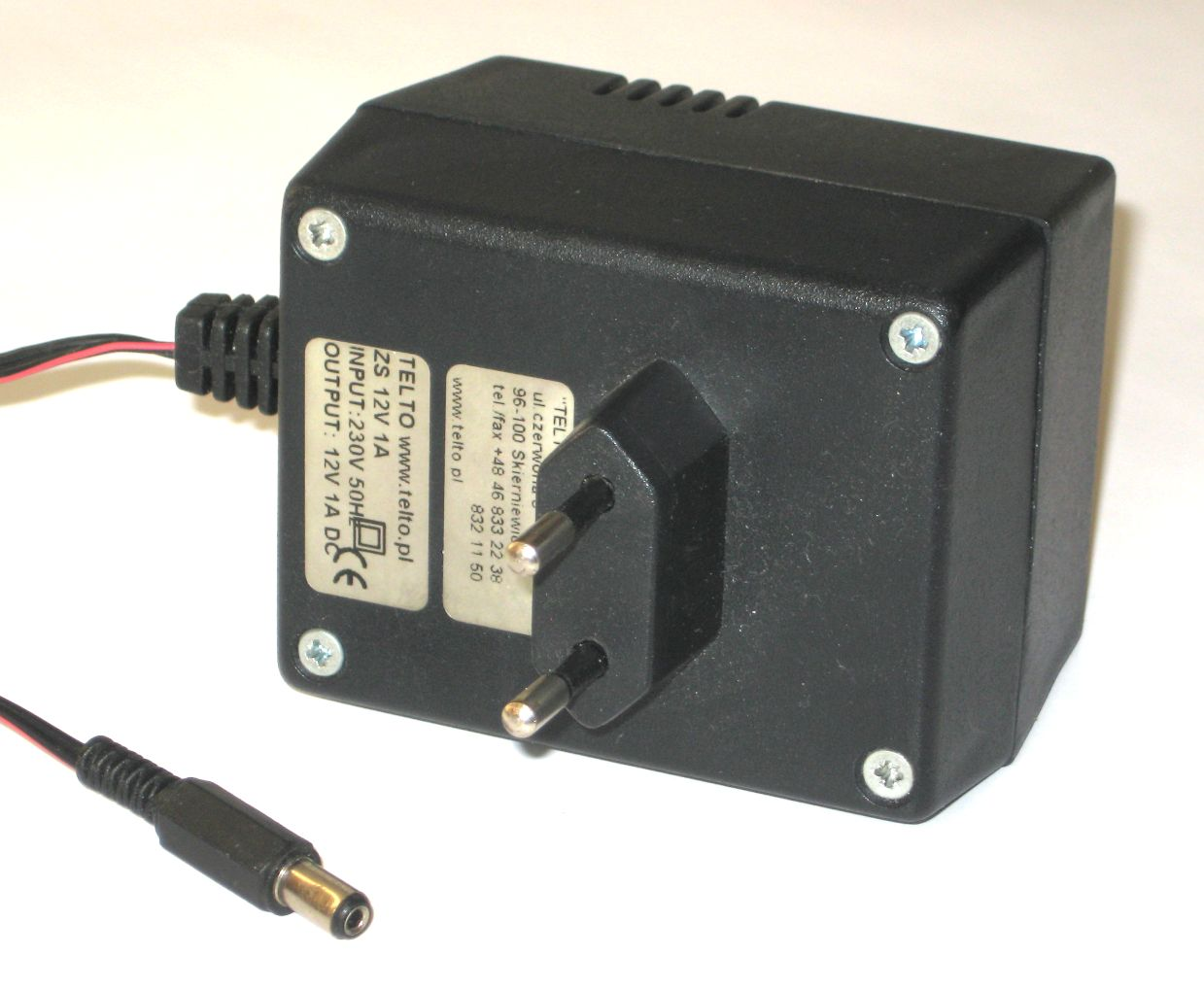 Power supplier 12V 1A DC